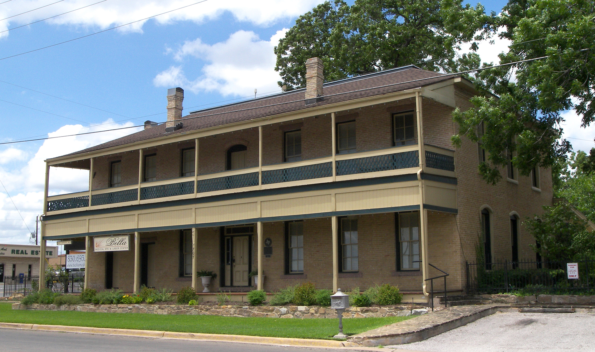 The Roper Hotel located at 707 3rd St, Marble Falls, Texas, United States. The building was listed on the National Register of Historic Places on January 8, 1980 and designated a Recorded Texas Historic Landmark in 1981.